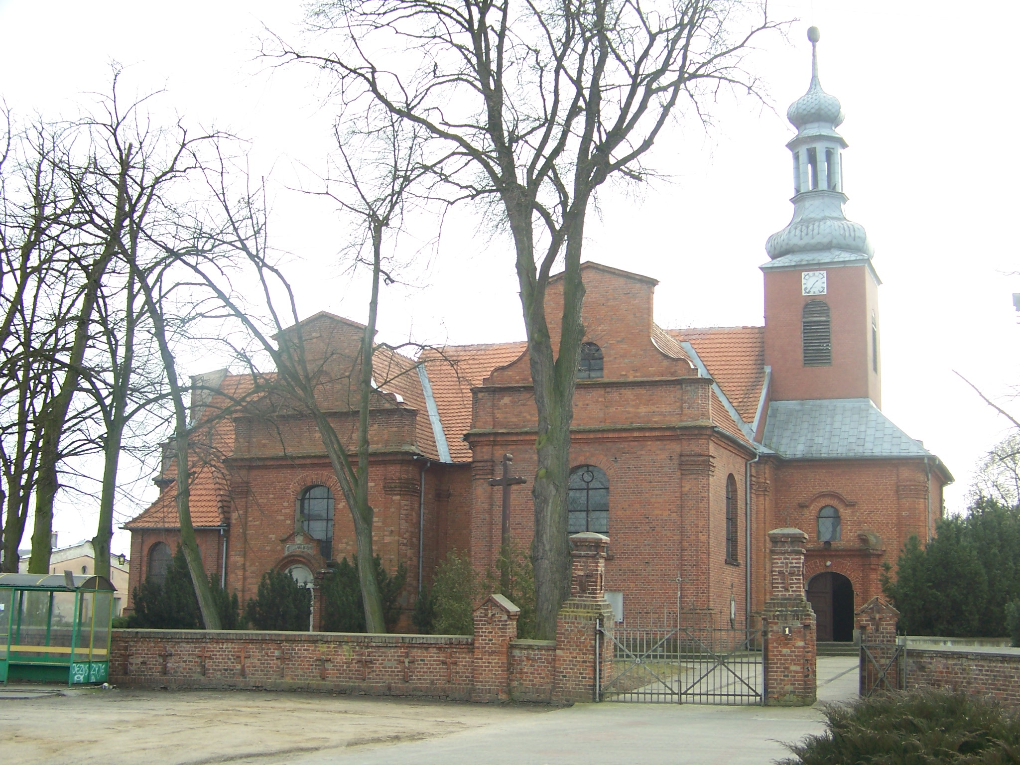 Saint Catherine of Alexandria church in Głuchowo, Poland